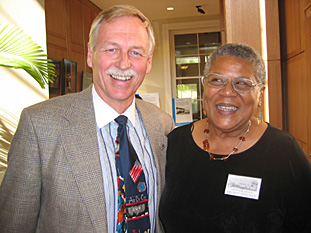 Minnijean Brown Trickey (right), one of the Little Rock Nine, and Rep. Vic Snyder (left) at the Little Rock monument and stamp unveiling. August 30, 2005.